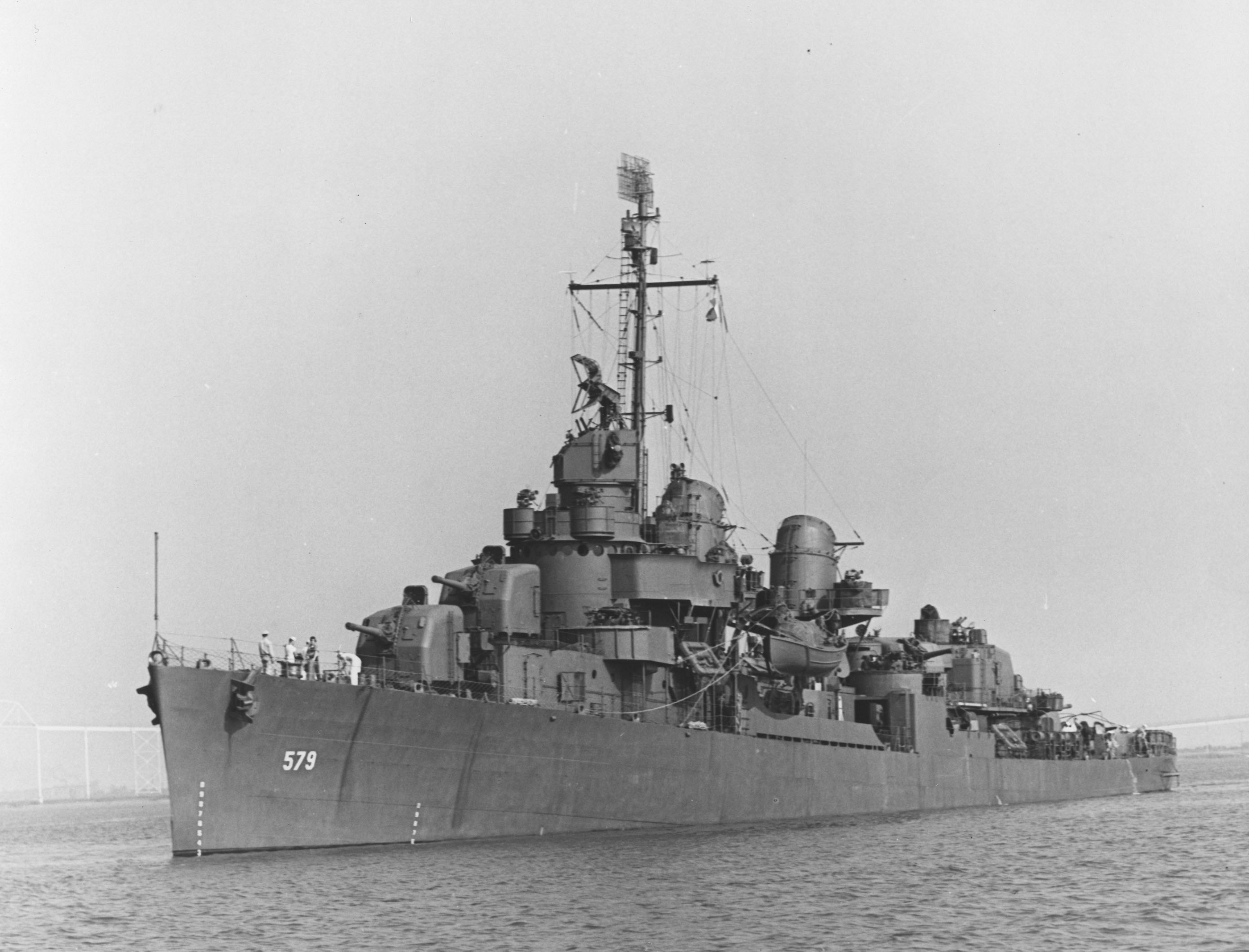 The U.S. Navy destroyer USS William D. Porter (DD-579) off the Charleston Naval Shipyard, South Carolina (USA), on 24 September 1943.